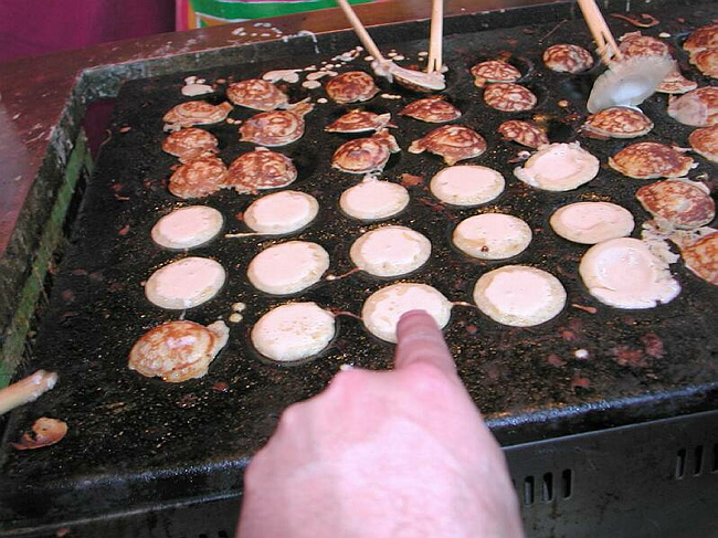 Small pancakes from Netherland